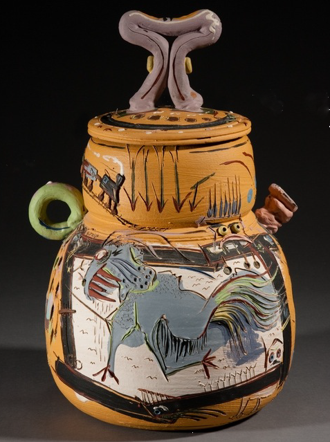 Sara's Dream, Don Reitz, 1984. Earthenware, low fired salt with engobes 16 x 12 x 10 in. Collection of Brent Reitz.